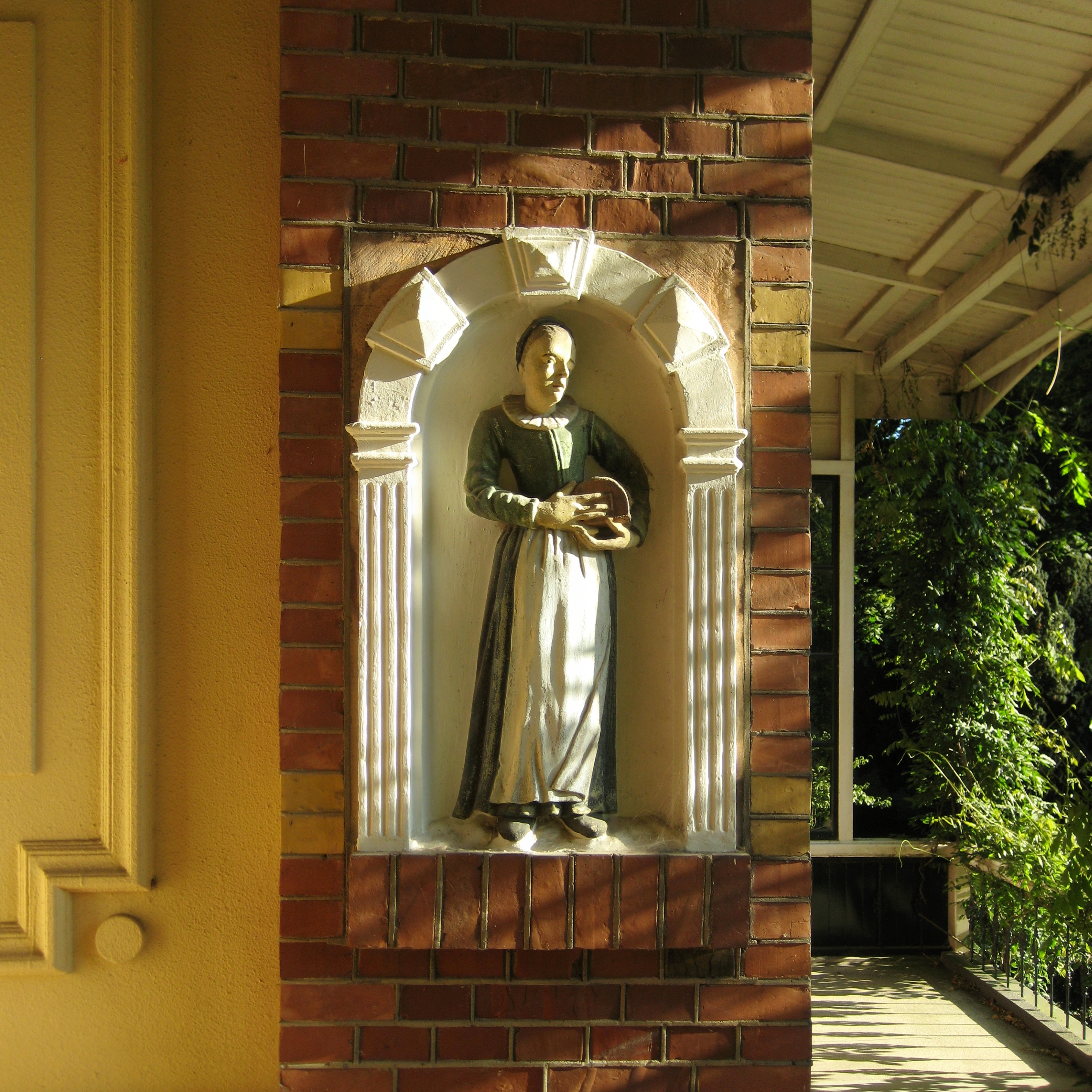 Statue of an orphan near the entrance of villa Hilghestede (1895), a former orphanage in the Dutch city of Groningen.